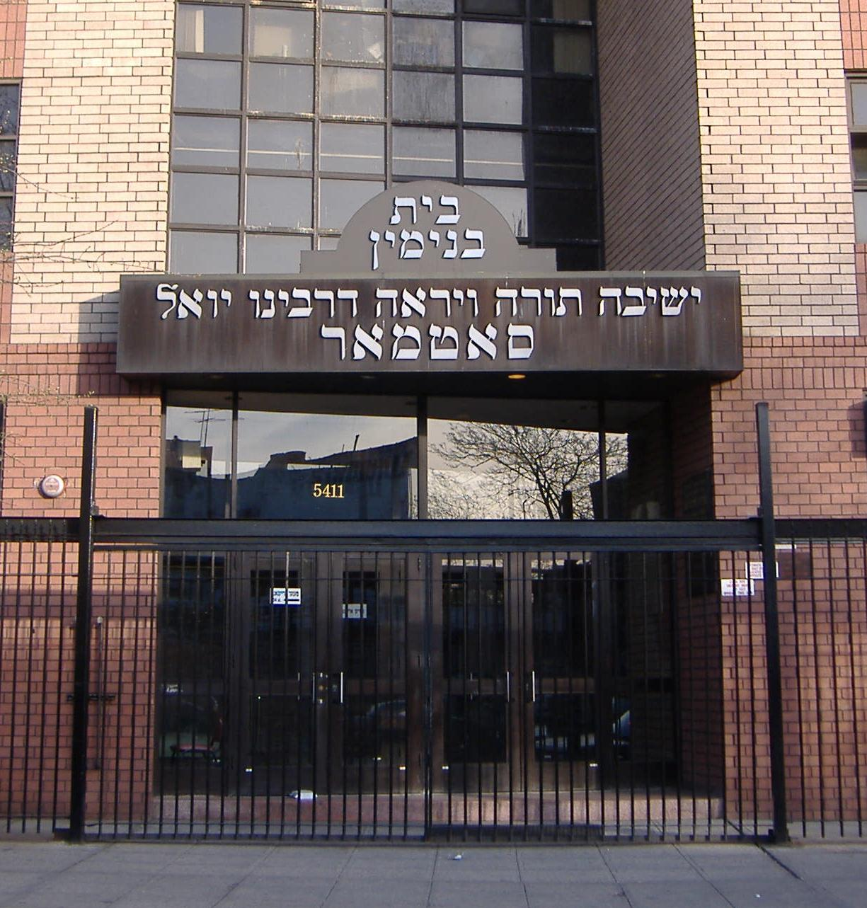 Entry of the Satmar Yeshiva in Broolyn, New York.